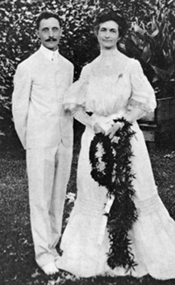 The Gurreyʻs 1903. Alfred Richard Gurrey, Jr. and Carolyn Haskins Gurrey. From "Photographers of Old Hawaii".